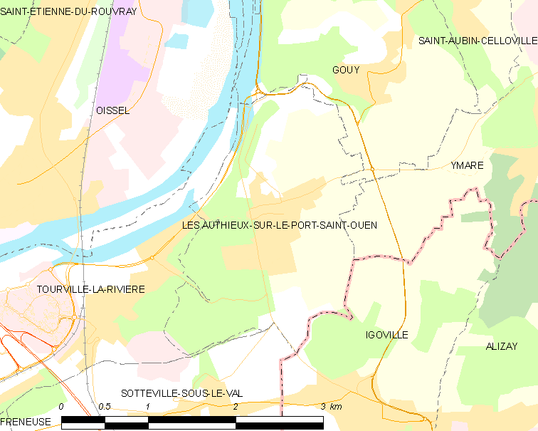 Map of French municipality Les Authieux-sur-le-Port-Saint-Ouen